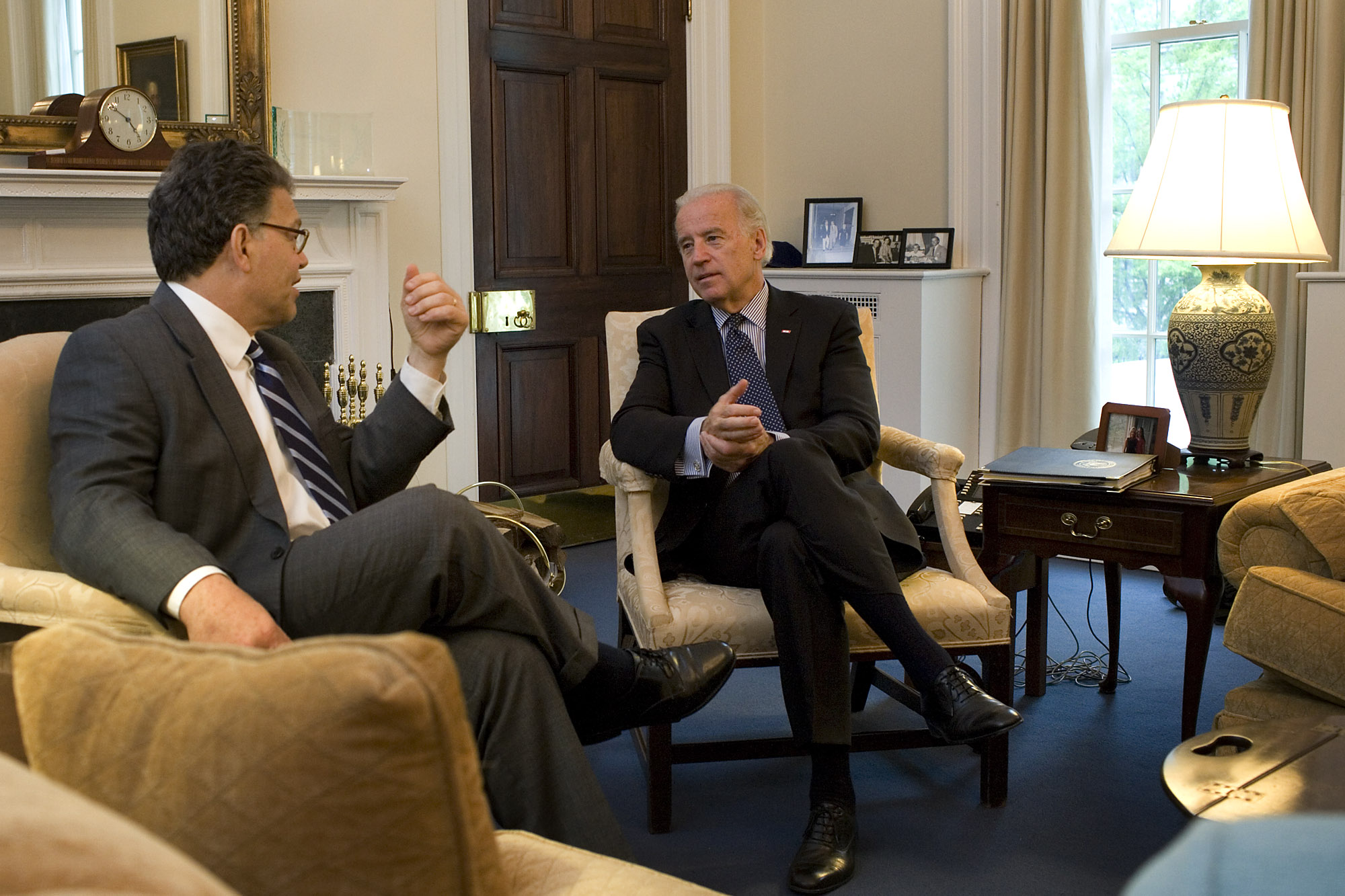 Vice President Joe Biden meets with Al Franken (1951–) Alternative names Alan Stuart FrankenDescriptionAmerican politician, comedian and writerDate of birth 21 May 1951 Location of birth Manhattan Work period1973-presentWork location United StatesAuthority control : Q319084 VIAF: 86425630 ISNI: 0000 0001 1681 9289 LCCN: no93004145 NLA: 40034595 MusicBrainz: b0a3dda1-2cc0-404e-a26d-cdb3f302eb41 WorldCat creator QS:P170,Q319084 in the Vice President's West Wing office in Washington, DC.